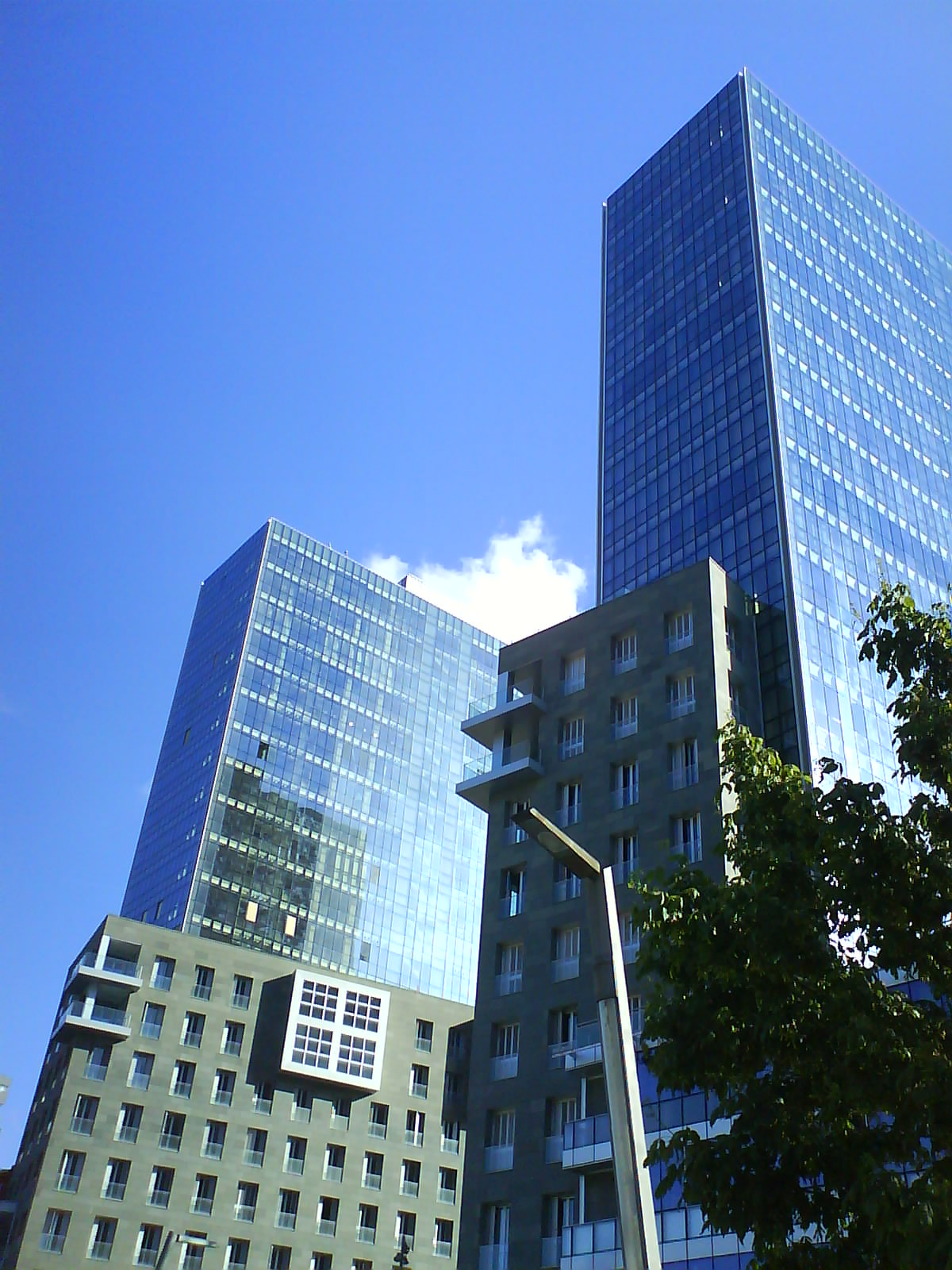 "Isozaki Atea" towers, Uribitarte (Bilbao)